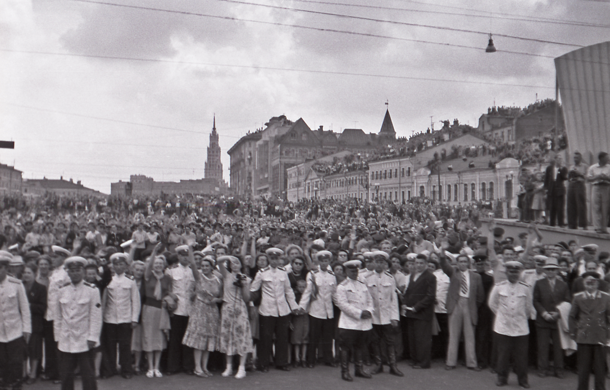 6th World Festival of Youth and Students (1957). Opening day: Drive through Moscow to the Lenin-Stadium. The people are even standing on the roofs! - You may want to have a look at my website (in German)